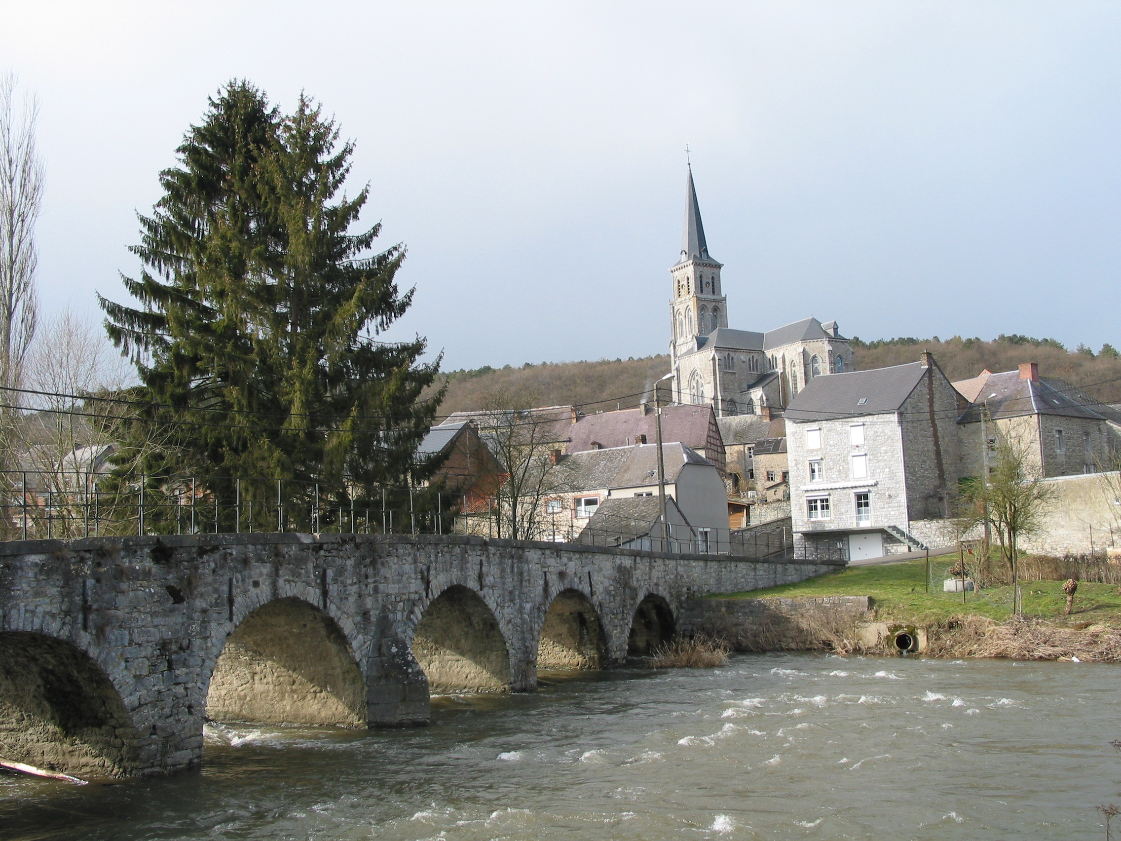 Treignes (Belgium), the old bridge on te Viroin river and the church of the Saints Ruffin and Valère (1871-1872).